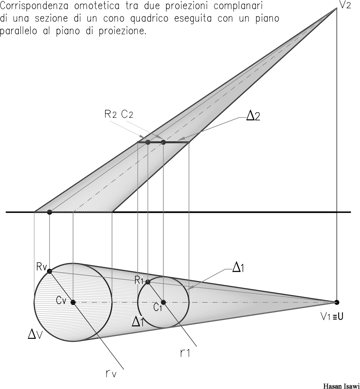 homothety